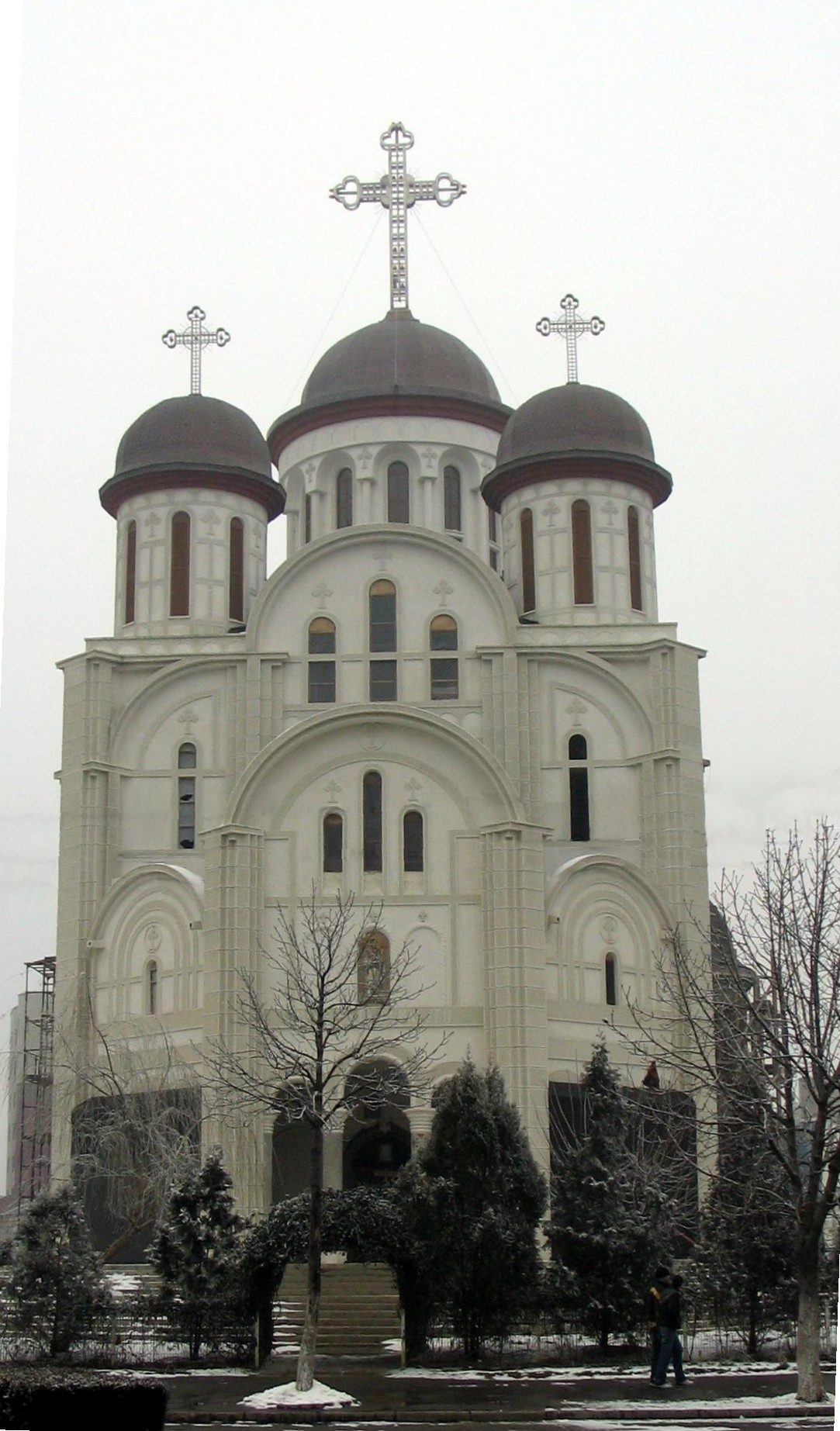 The St. Sava church in Buzău, România